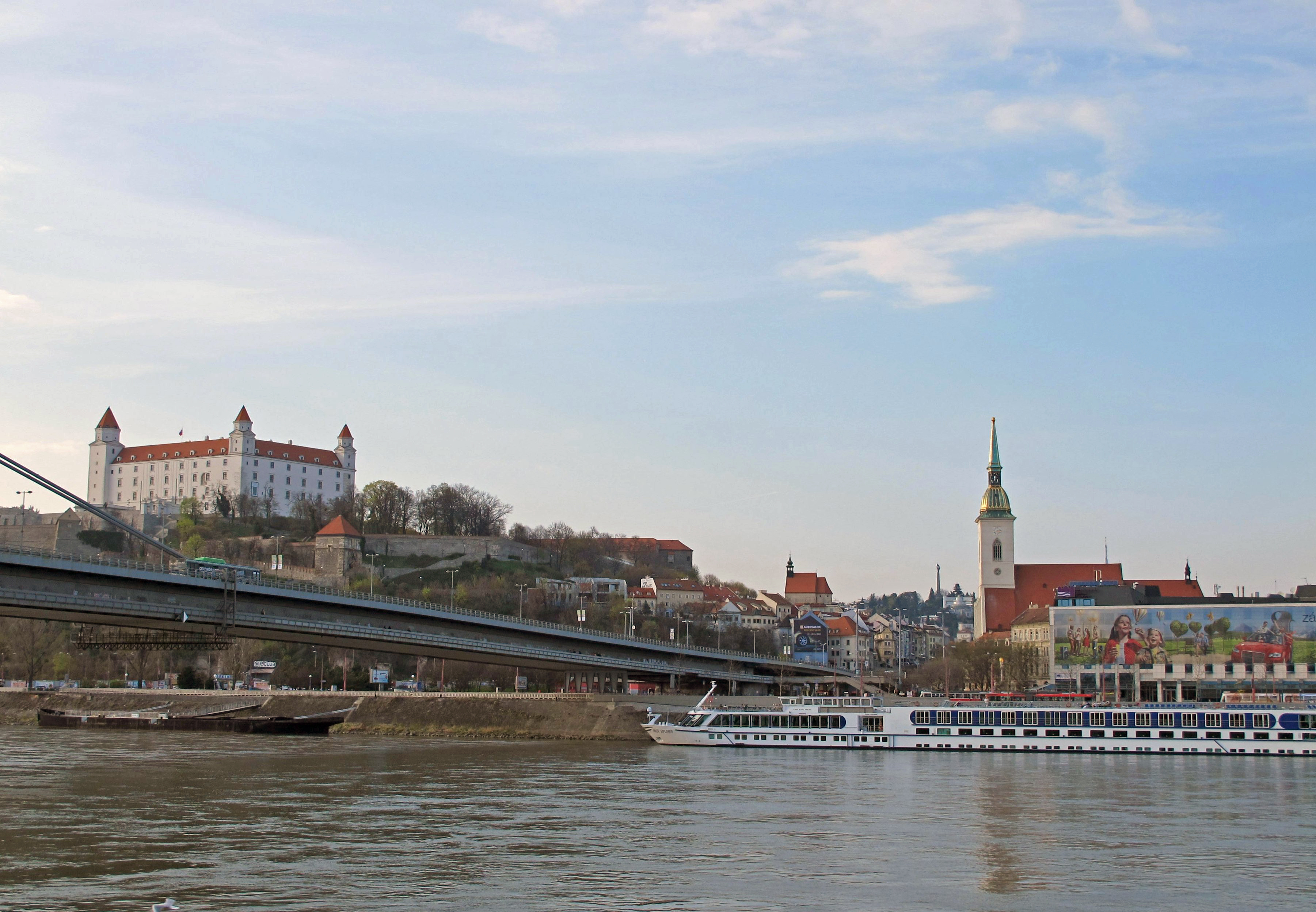 River cruise ship River Explorer in Bratislava